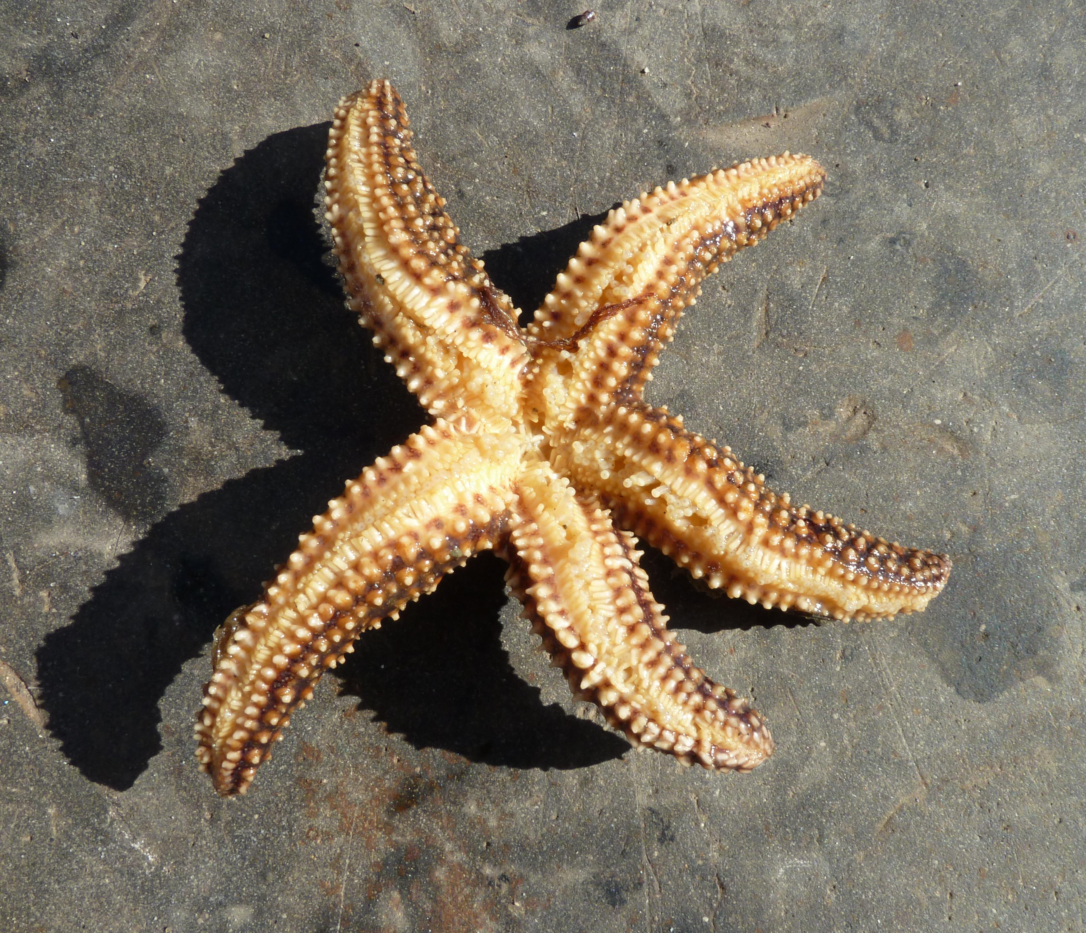 Asterias forbesi Common starfish, In trawl, RV Gemma, at TDWG 2010, off Woods Hole, Massachusetts. p1000085